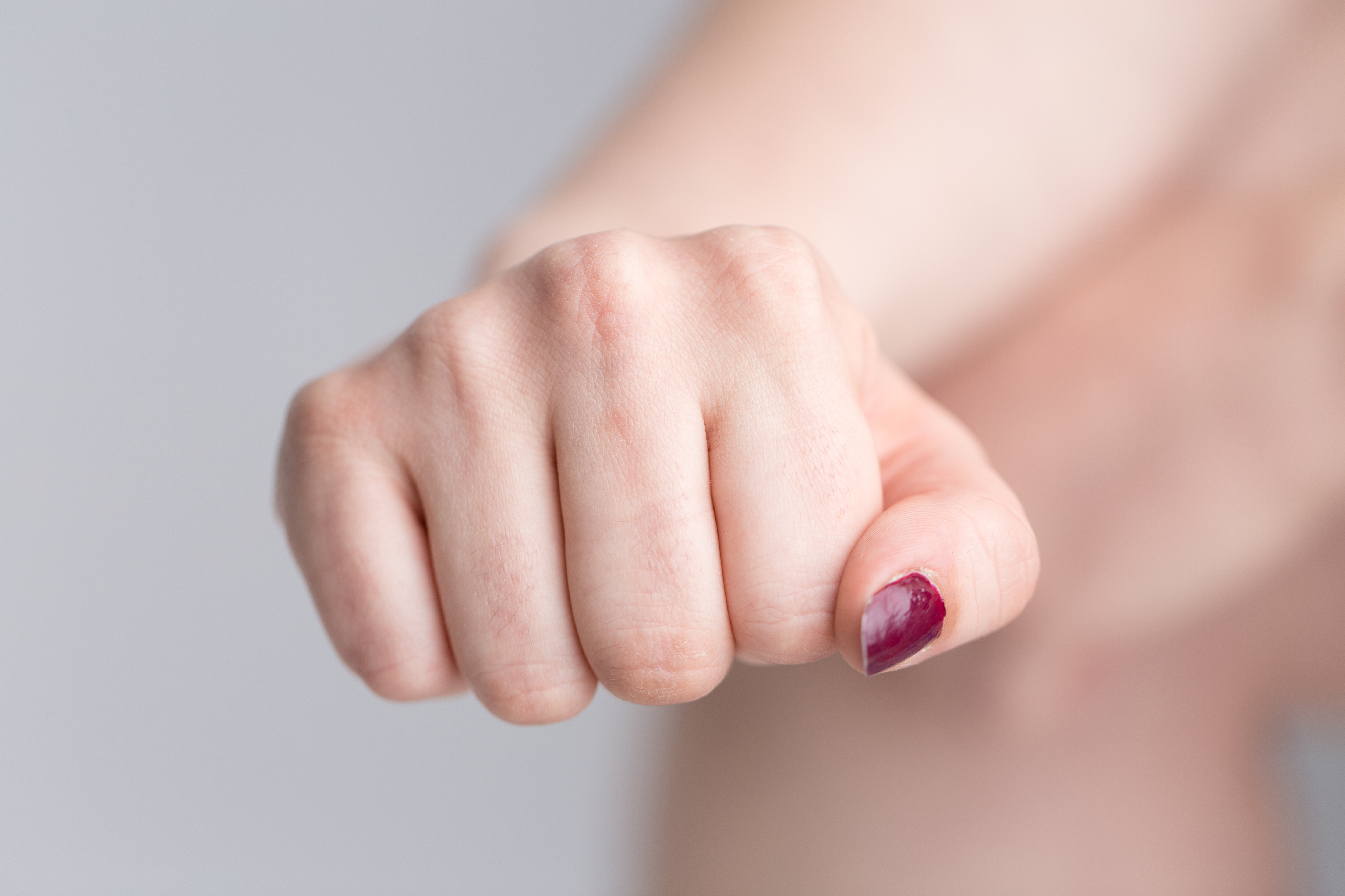 Juno, 19 year old, non-binary person